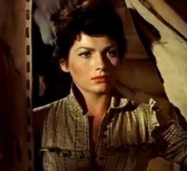 Valerie French in Jubal (1956) - trailer (cropped screenshot).